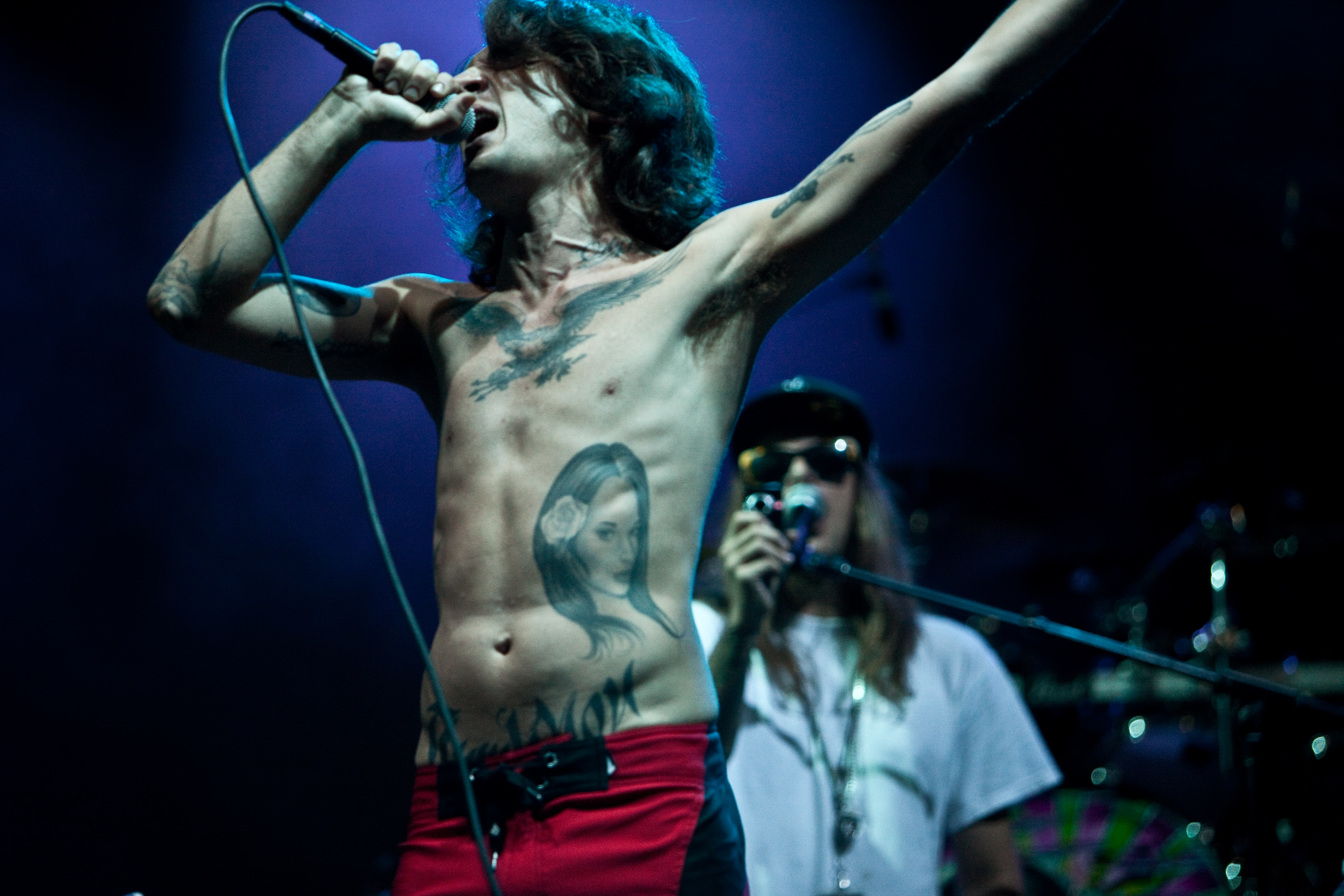 Mickey Avalon on the Blazed and Confused tour. Shot by Kris Krug.